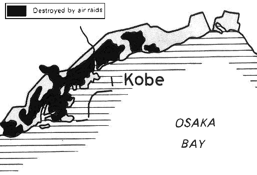 image showing bombed-out areas of Kobe, Japan Summary Subsection of :Image:JapaneseCityDestroyedAreas.png map focusing on Kobe alone. Original work is from a 1946 U.S. Government survey of WWII bombing damage in Japanese cities.